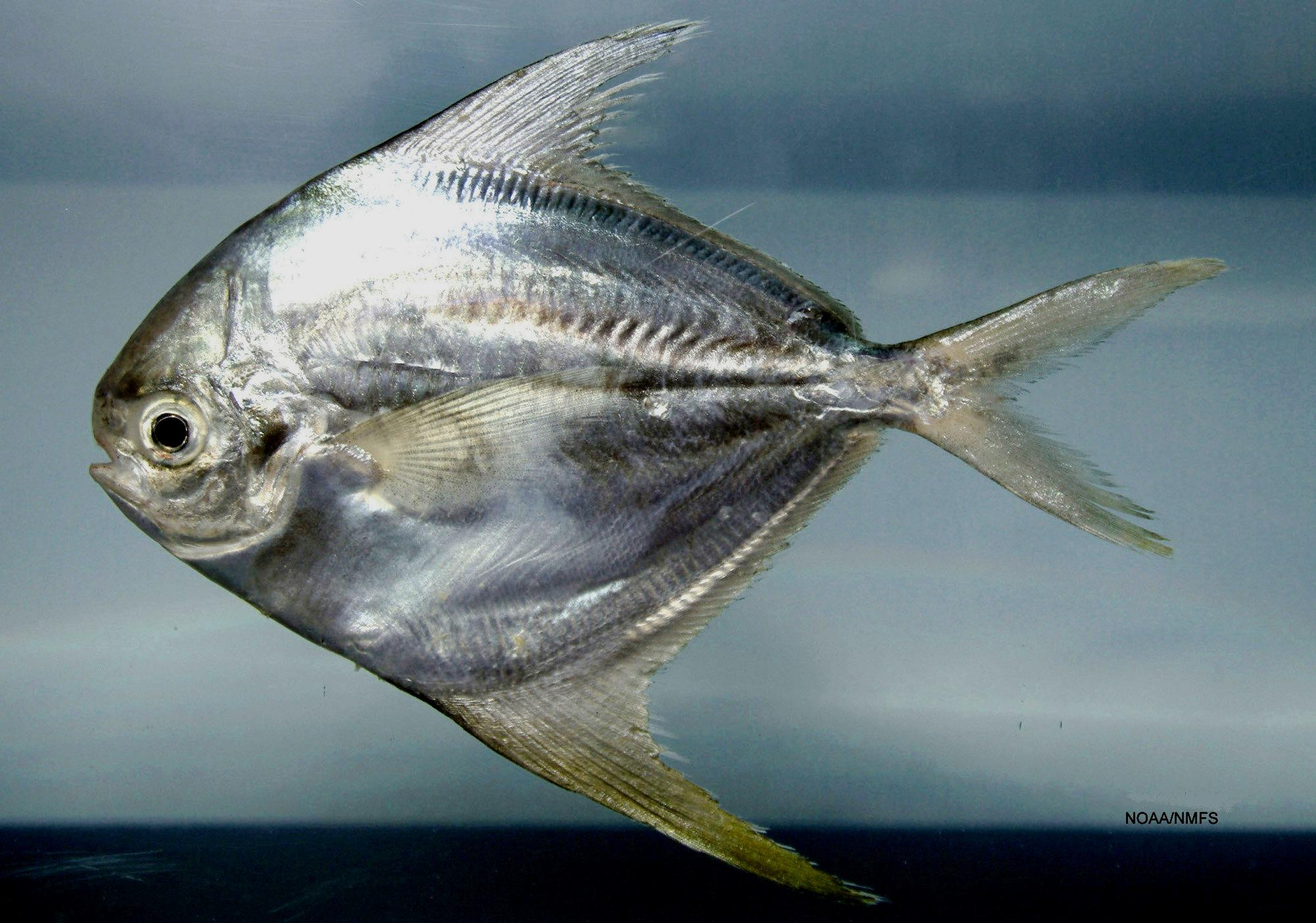 Harvestfish or American harvestfish ( Peprilus paru ). Gulf of Mexico.